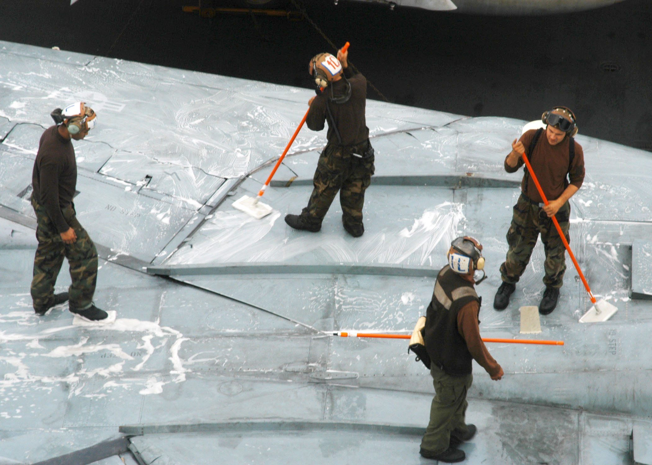 Arabian Gulf (Dec. 4, 2003) -- Flight deck personal from the “Checkmates” of Fighter Squadron 211 (VF-211) scrub down an F-14 Tomcat on the flight deck of the Norfolk, Va. Based nuclear powered aircraft carrier USS Enterprise (CVN 65). Enterprise is currently deployed to the Arabian Gulf in support of Operation Iraqi Freedom. U.S. Navy photo by Photographer's Mate Airman Jennifer L. Brown. (RELEASED)